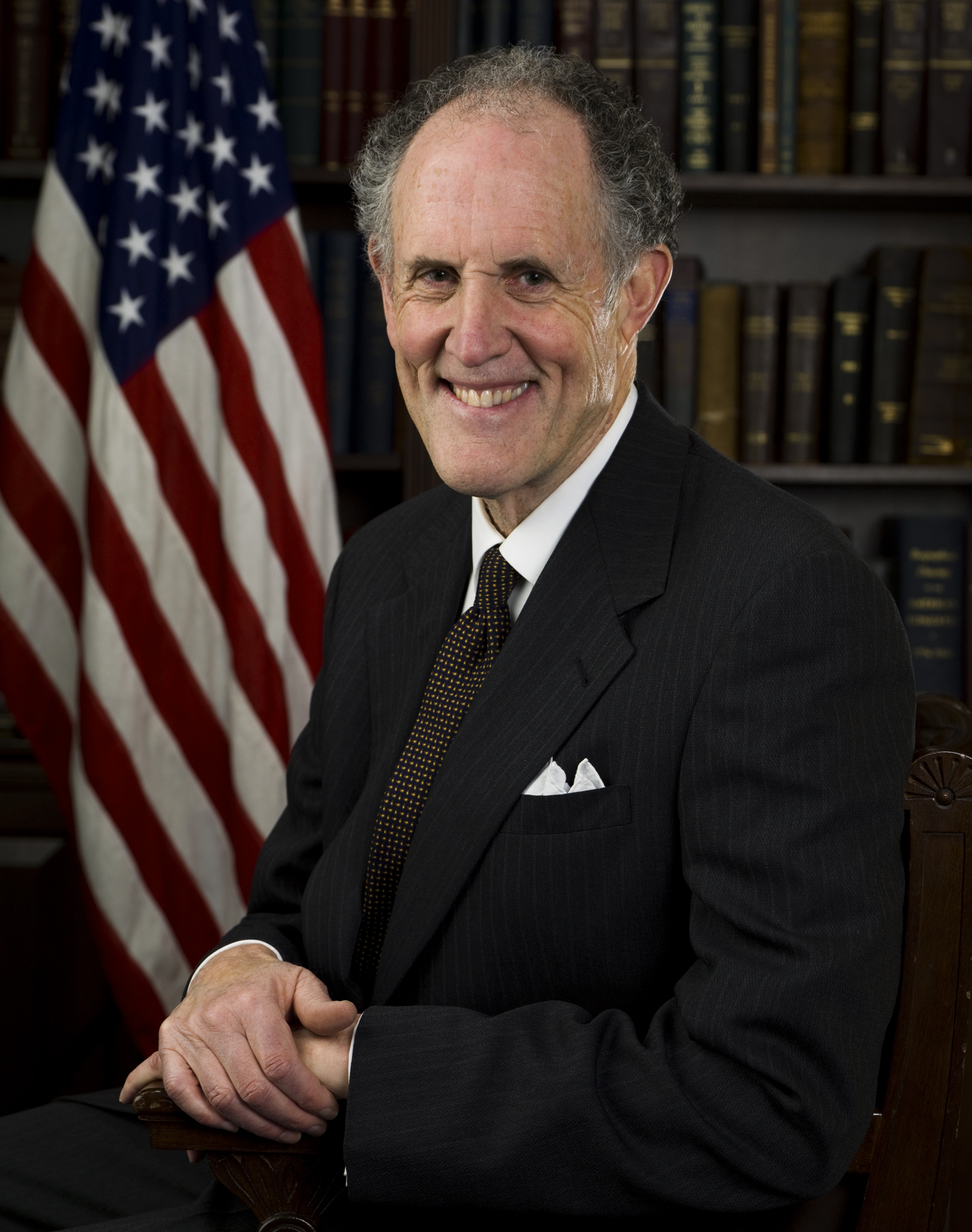 Ted Kaufman, member of the United States Senate from Delaware.